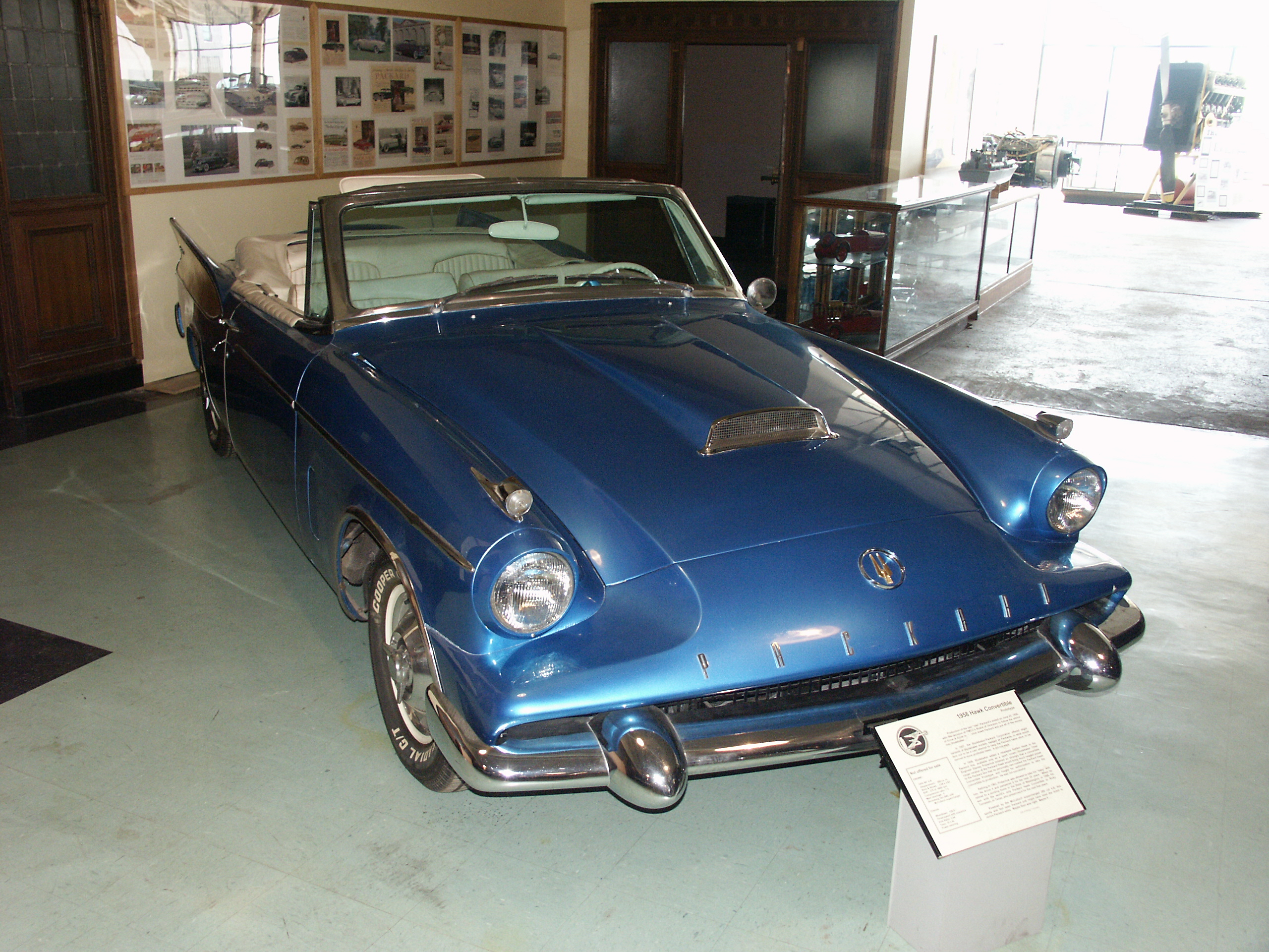 1958 Packard Hawk Convertible (prototype) in the American Packard Museum, Dayton, OH The car did not go into production. The prototype was driven by the chief engineer as his personal car.